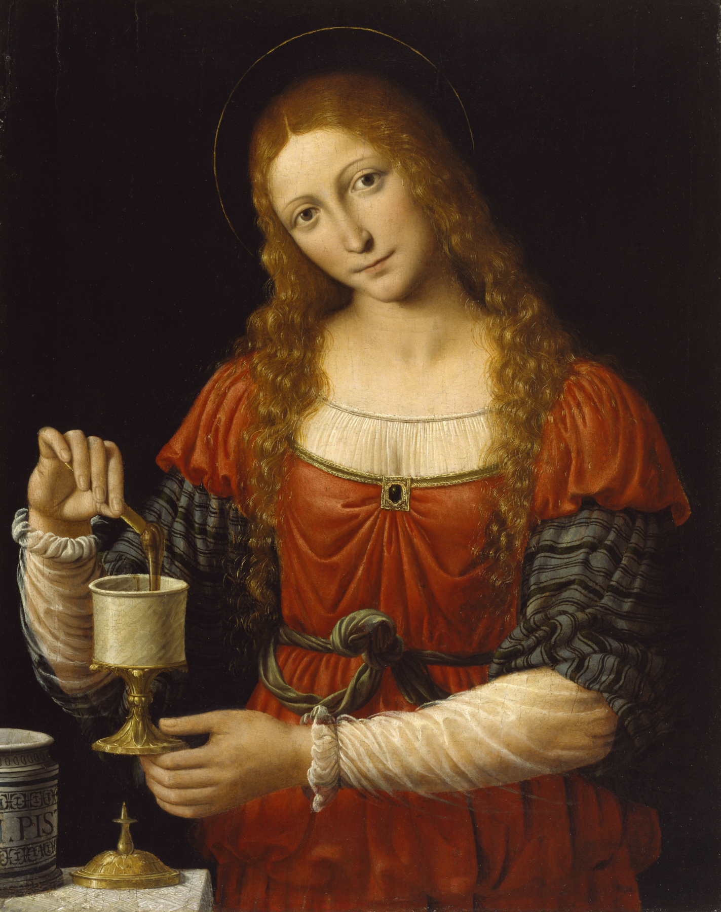 According to Church (but not biblical) tradition, Mary Magdalene was a sinful woman, who upon meeting Christ repented her former ways. She was present at the Crucifixion and later went to anoint Christ's dead body (in accordance with Jewish burial ritual), only to discover that he was resurrected. As in this painting, the Magdalene is often depicted as a great beauty with long golden hair. She is shown here transferring the ointment from a maiolica pharmacy jar to a smaller vessel. Probably a follower of Andrea Solario, the artist has represented the Magdalene in a style influenced by the works of Leonardo da Vinci, particularly in the subtle "sfumato" technique that invisibly blends light and shade and make contours appear soft.